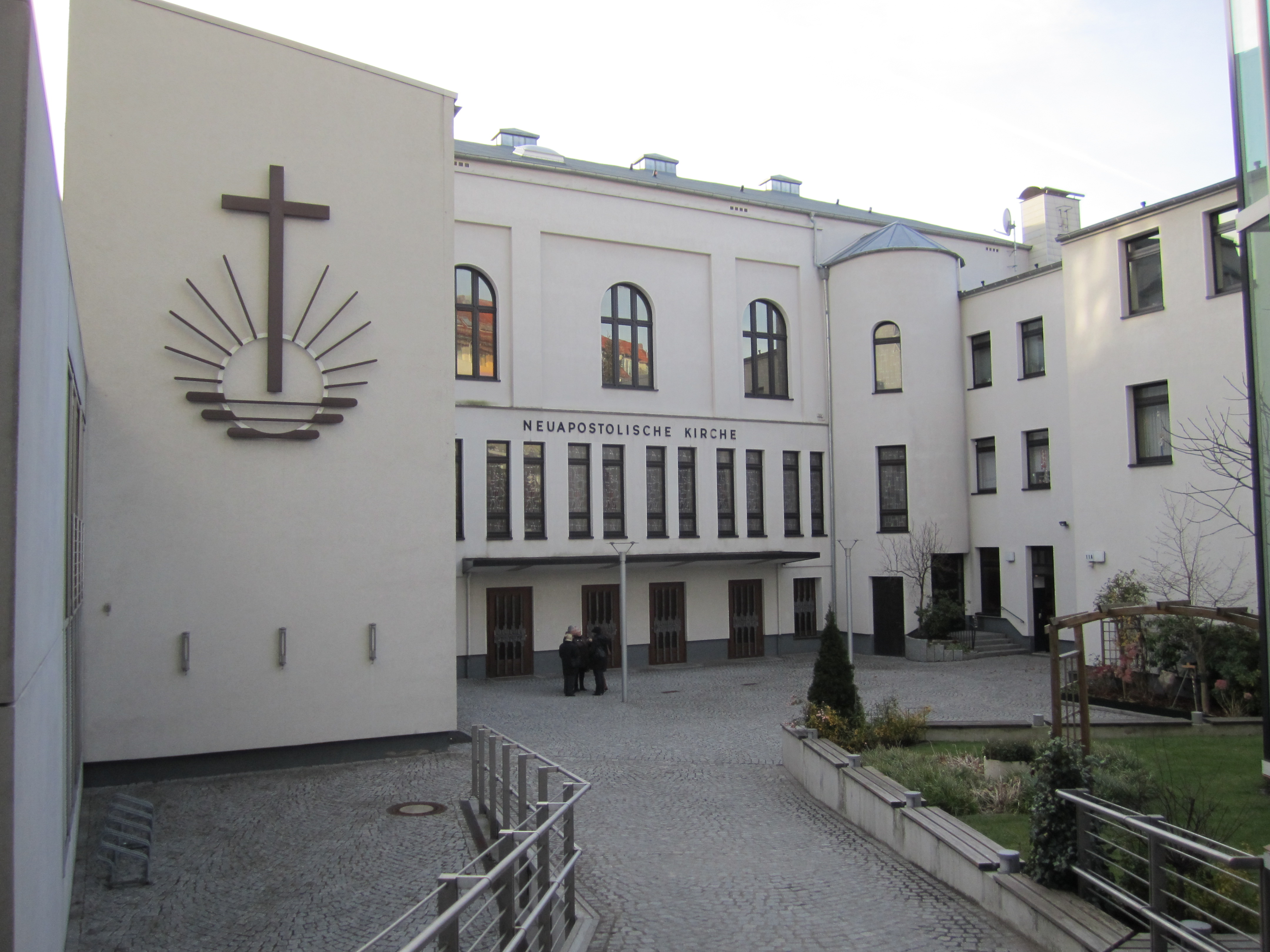 New Apostolic Church, Brühlstraße 13, Hanover, Germany.